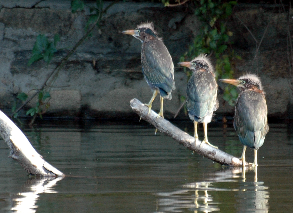 3 young Green Herons (Butorides virescens) on the lake in Piedmont Park, Atlanta seen during a bird walk with Georgann Schmalz of the Atlanta Audobon Society